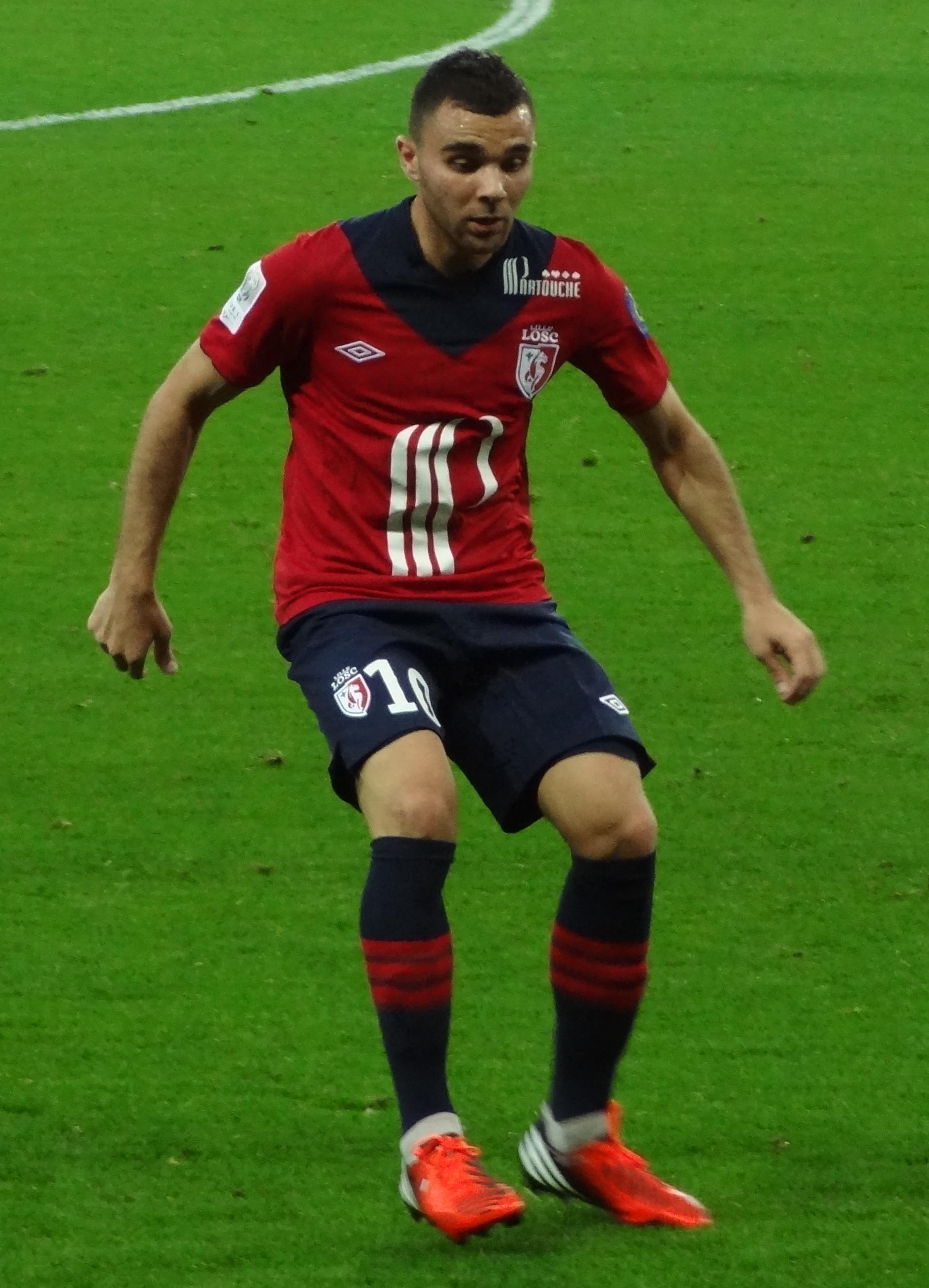 Marvin Martin (Lille LOSC)